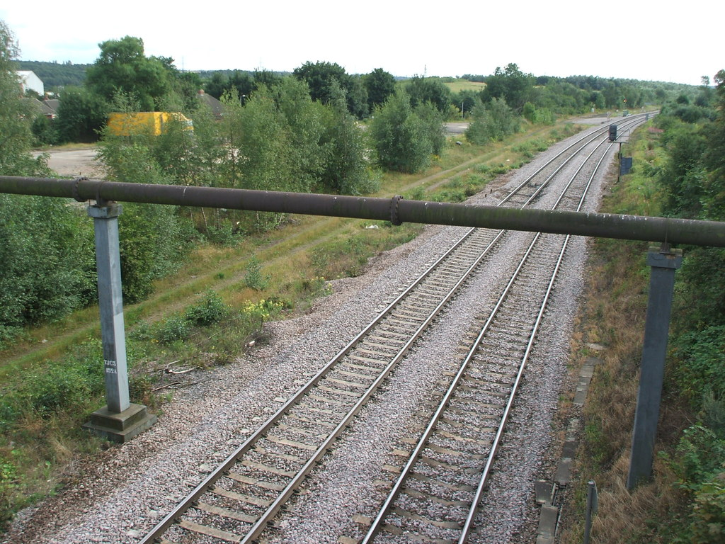 Kilnhurst railway station (site), YorkshireBelieved to be the site of the first Kilnhurst railway station which was opened by the North Midland Railway in 1841 on the line from Rotherham to Leeds, but closed in 1851. It was replaced by a later Kilnhurst station immediately behind the photographer which opened in 1869 and closed in 1968.